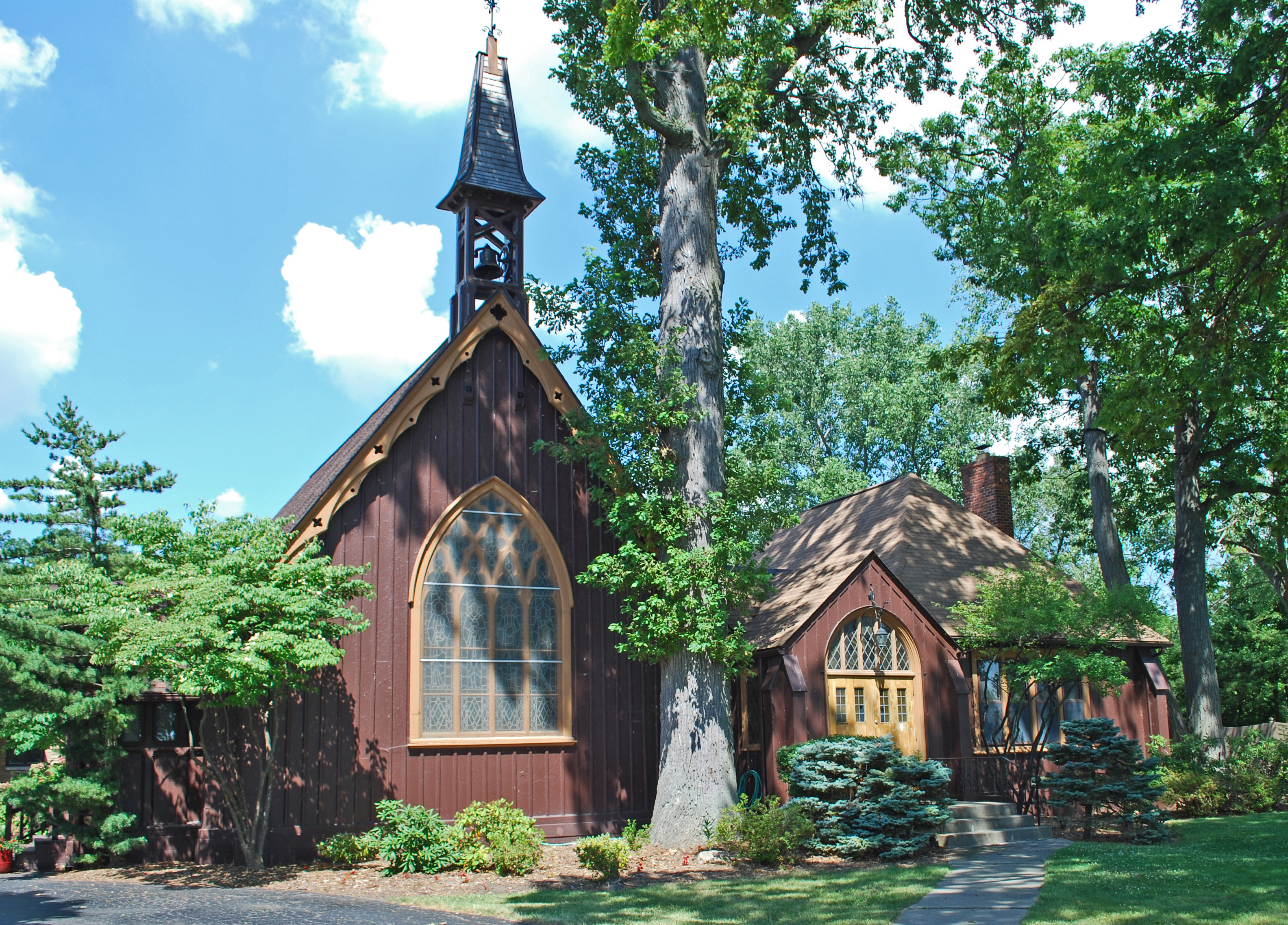 Front facade of St James Episcopal Church, Grosse Ile MI